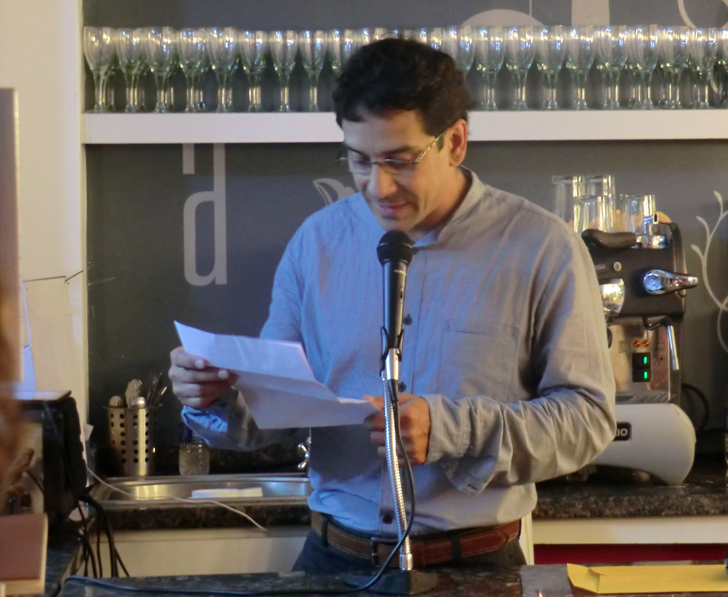 Venezuelan writer Gustavo Valle. Lugar Común Library, Caracas.